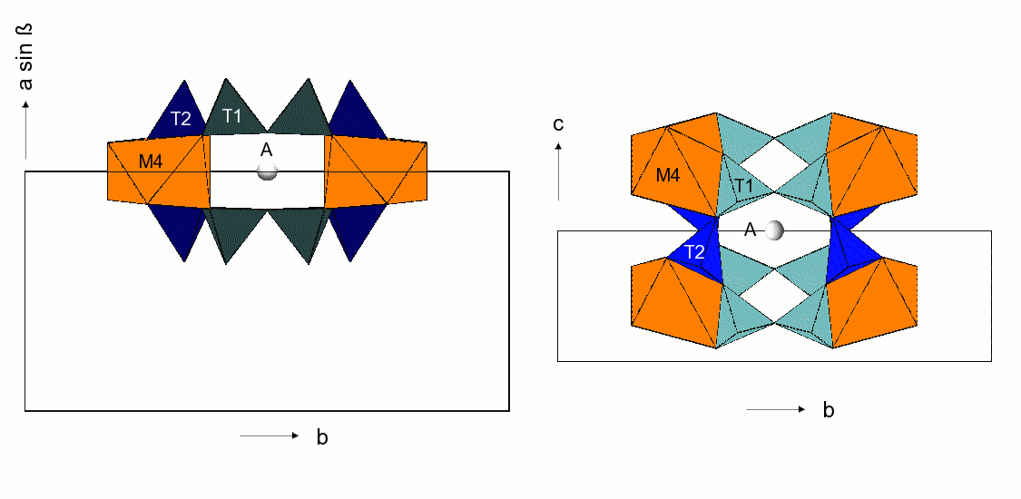 Amphibole structure: A-Position author: W. Bubenik